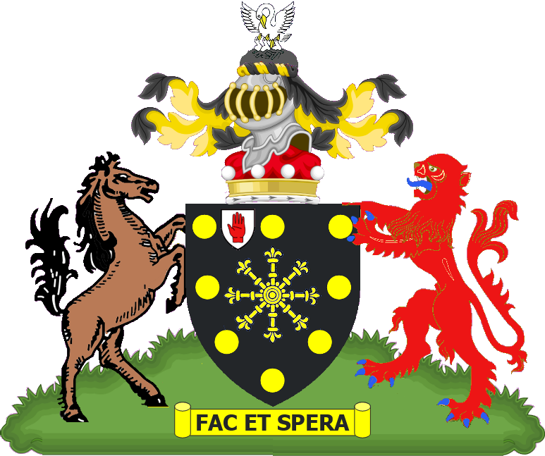 The armorial achievement of The Lord Glenarthur